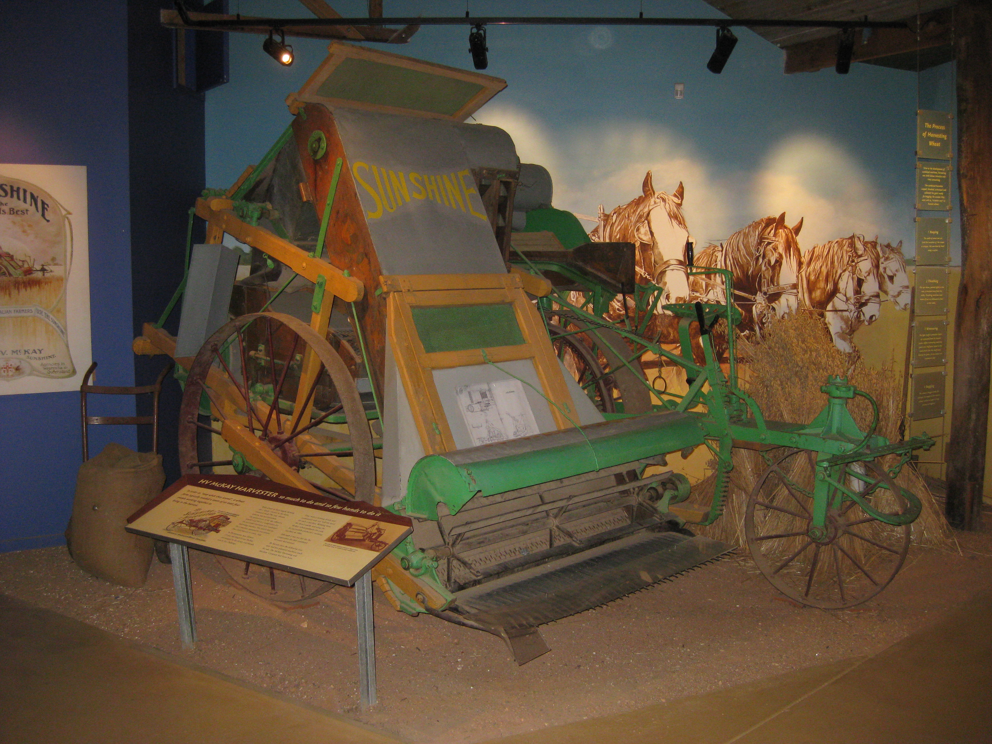 An old HV McKay "Sunshine" combine harvester on display at the Campaspe Run Rural Discovery Centre, Elmore, Victoria, Australia. – This one is likely an exemplar of "The Sunshine Harvester", i.e. the legendary model that was patented in 1885. – Please add information, if you know more about it.